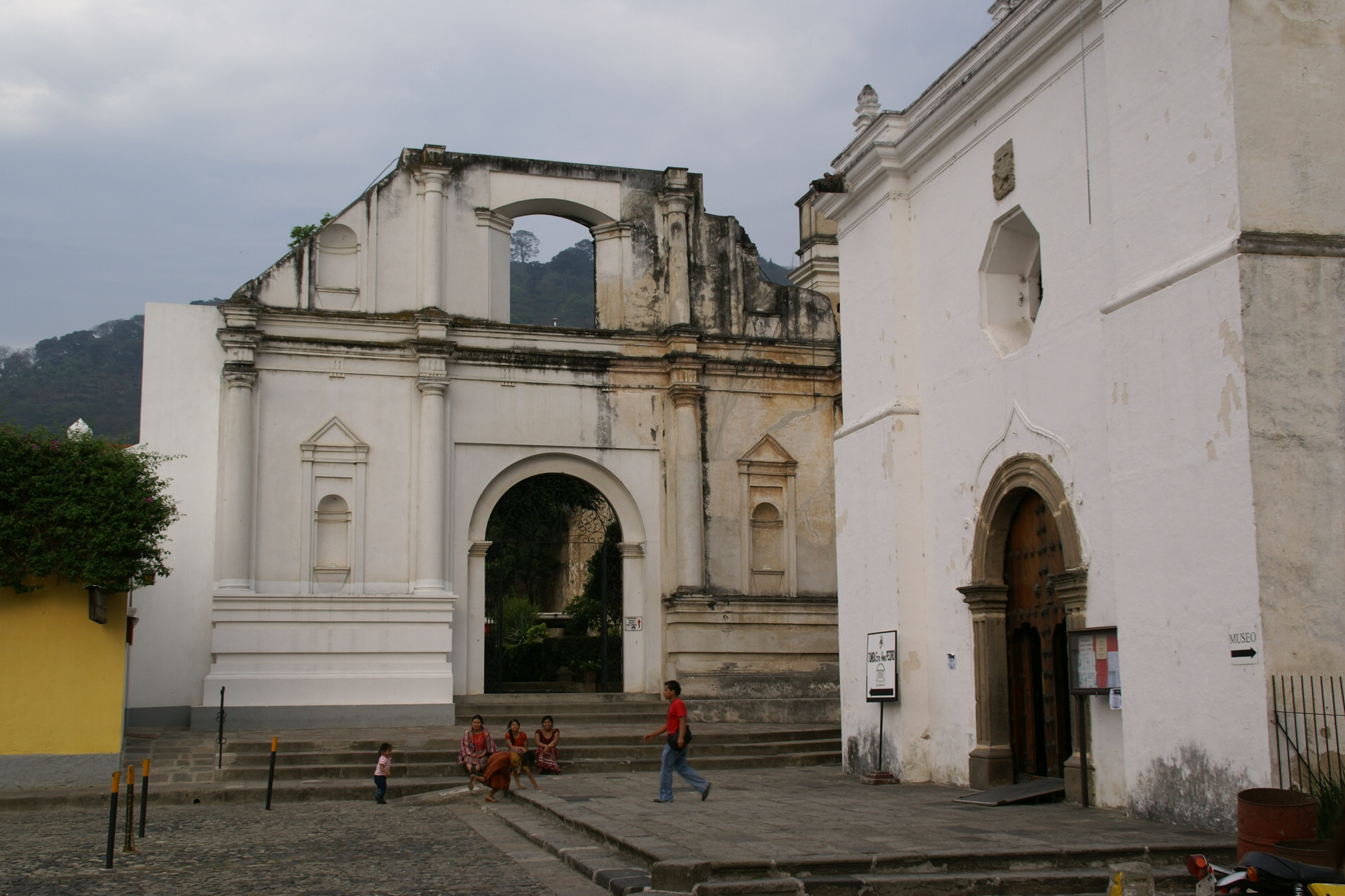 San Francisco Church in Antigua Guatemala with the chapel of Santo Hermano Pedro at right